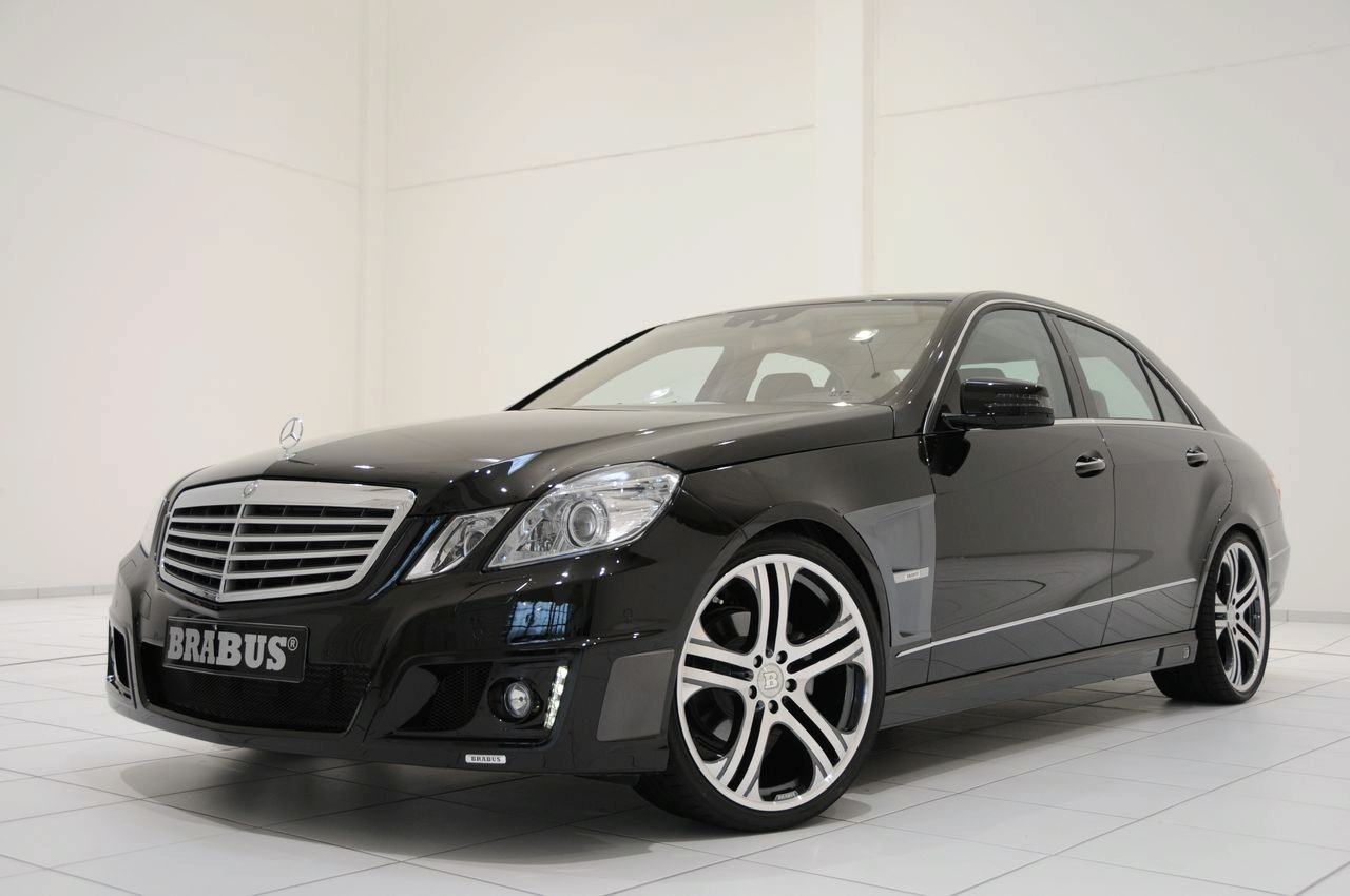 Photo of Mercedes-Benz E-class Brabus W212 in 2009.